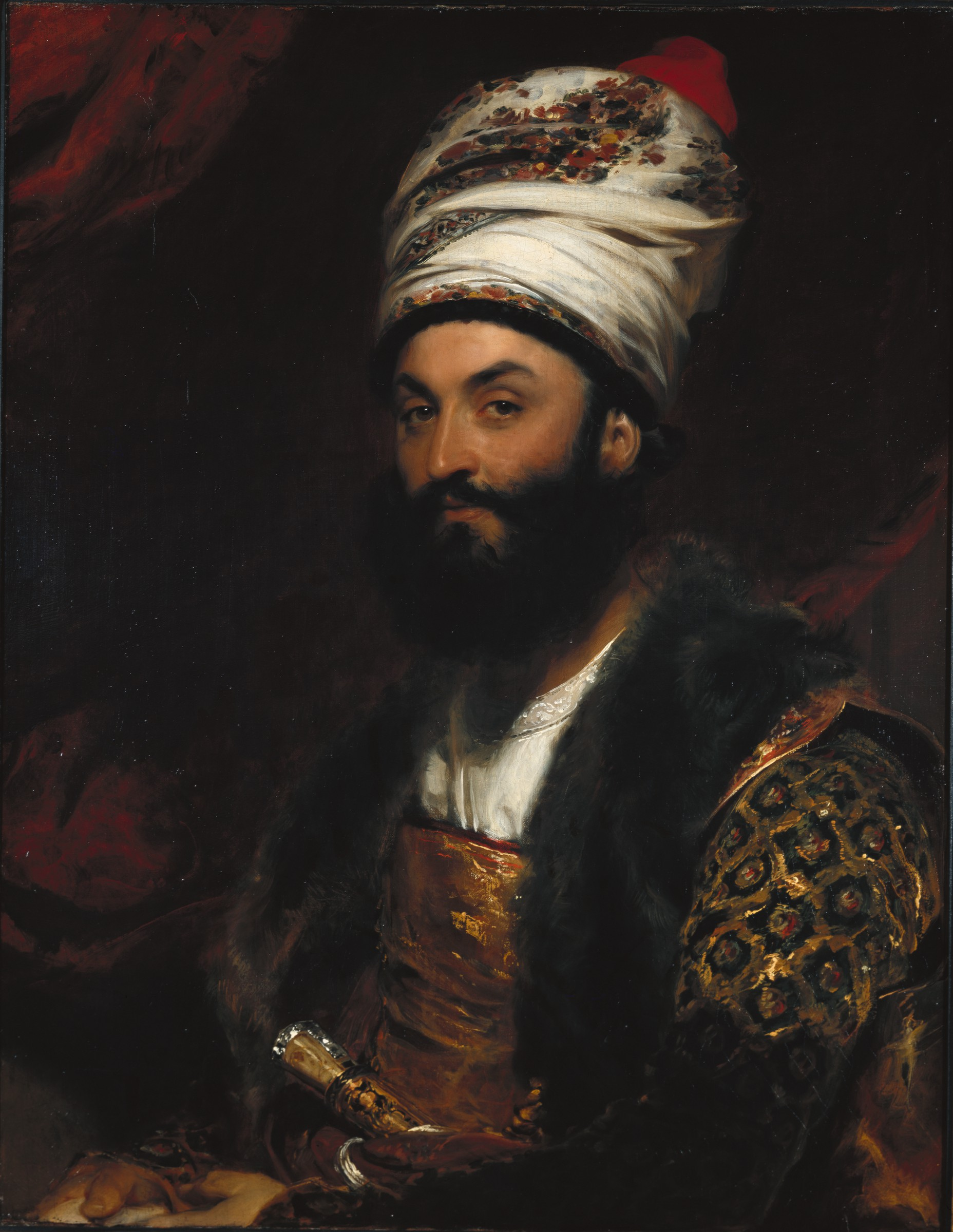 Exhibit in the Fogg Art Museum, Harvard University, Cambridge, Massachusetts, USA. The museum permitted photography of this artwork without restriction. This artwork is in the public domain because the artist died more than 70 years ago.